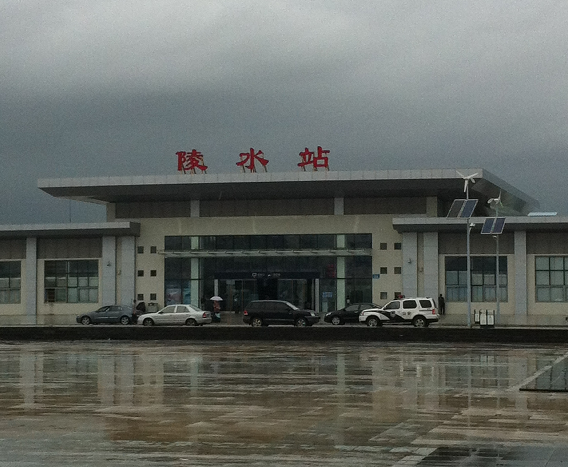 Lingshui Railway Station